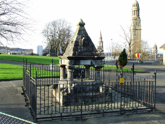 Wellpark well This well that give Wellpark its name is in the northeast corner of the park.